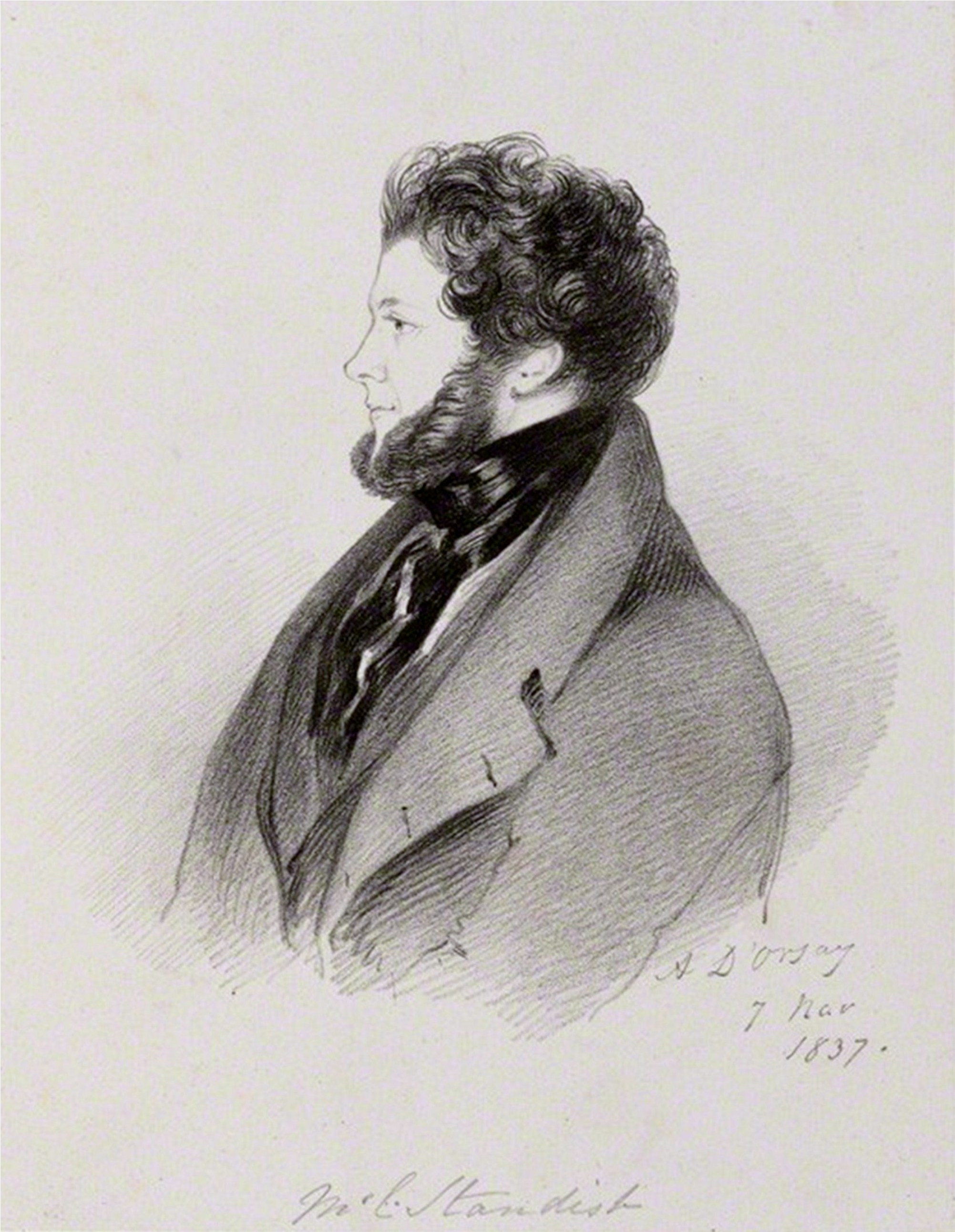 Lord Charles Strickland Standish was born in Lancaster County on 15 March 1790 and succeeded his father Thomas Strickland Standish on 4 December 1813. He served as a magistrate, deputy lieutenant of Lancaster County and sheriff in 1836. Charles Standish was elected deputy for the Whig Party of Wigan in 1837 and again in 1842. He married Émilie Conradine Matthiessen (1801-1831), grand-niece of Countess Félicité de Genlis, at Carlepont in France on 18 January 1822. Charles Standish died in London on 10 June 1863.